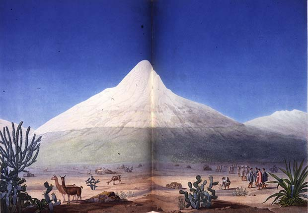 Watercolor of the Chimborazo volcano, Equador, based in the notes of Alexander von Humboldt. The drawing was first published in Alexander von Humboldt and Aimé Bonpland work Voyage de Humboldt et Bonpland...Ière partie; relation historique..., Paris, F. Schoell, 1810.